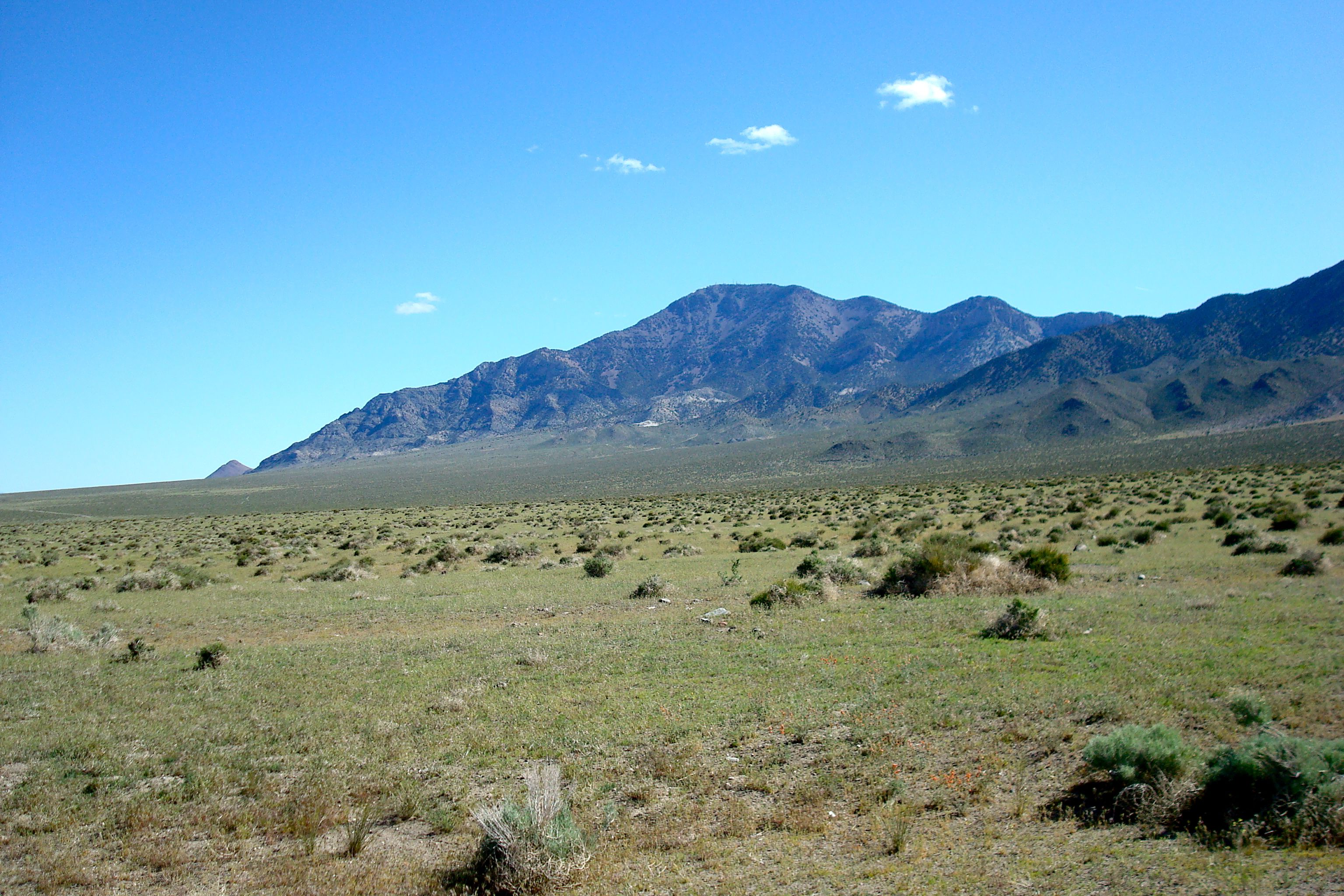 Frisco Mountain from (southeast), and Wah Wah Valley. Southwest flank of mountain. The mountain range extends out of sight to NE, the San Franciso Mountains (Utah). (Photo from Utah State Route 21, 6-mi to SW)